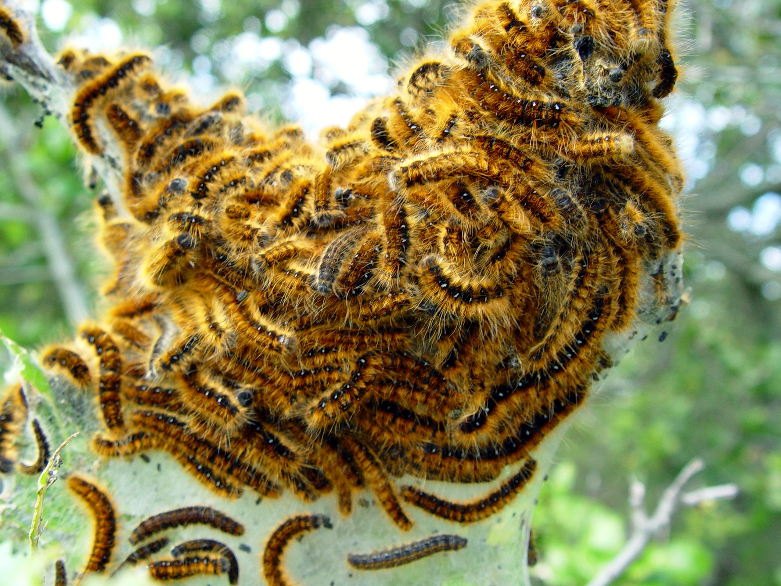 Western Tent Caterpillars (Malacosoma californicum, family Lasiocampidae), seen at Briones Regional Park in the East Bay Regional Parks District, San Francisco Bay Area, Contra Costa County, California.